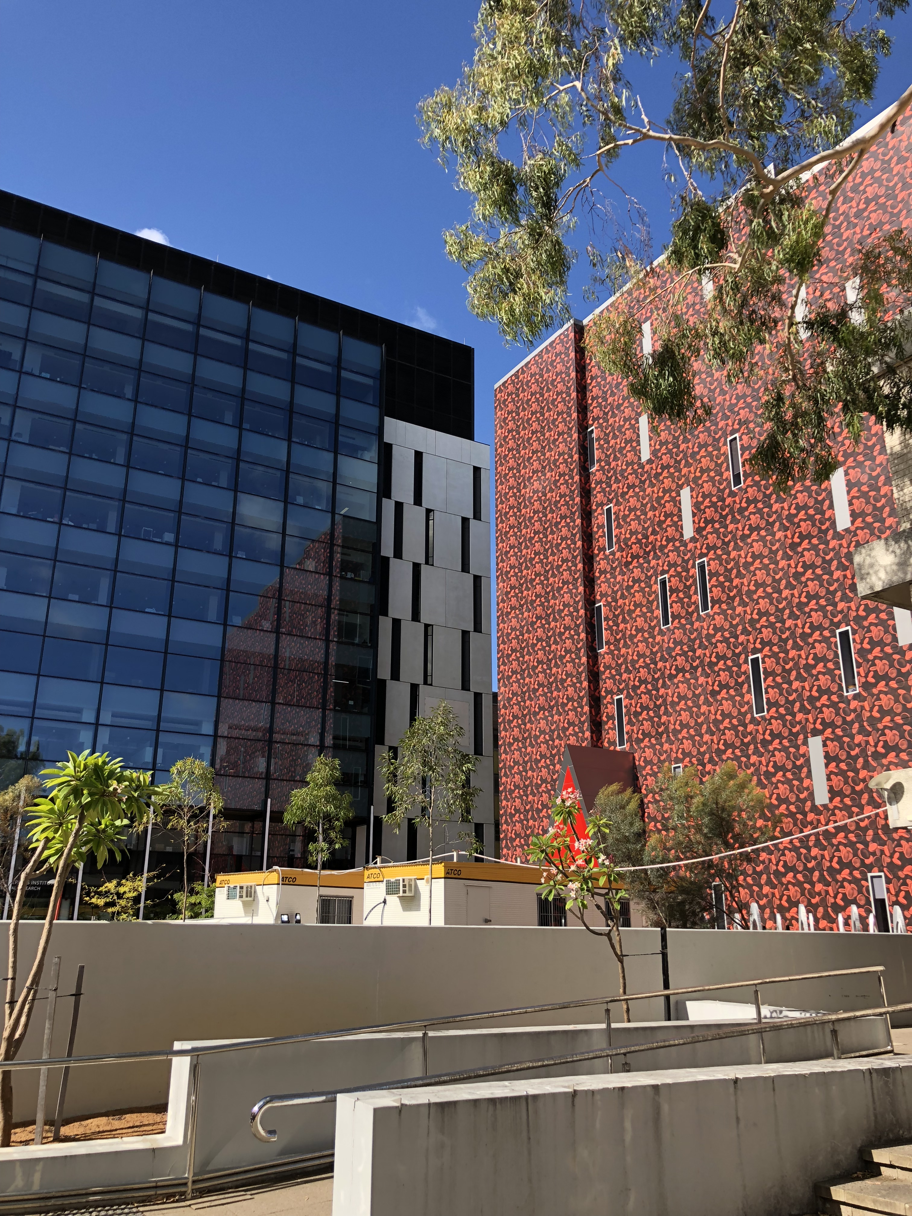 Photographs of QEII Medical Centre Buildings.